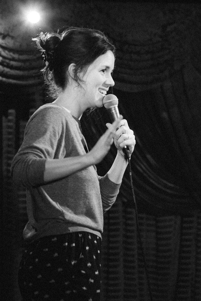 Not Safe For Work Presented by Comedy Central Produced by CleftClips Photography by Mandee Johnson / The Del Monte Speakeasy at Townhouse Venice - Los Angeles, CA